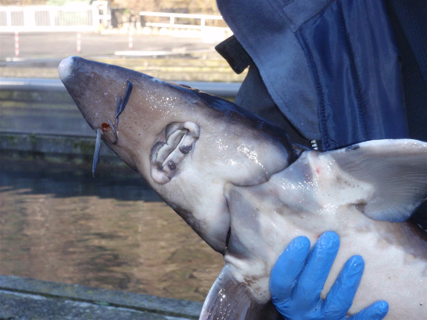 Female Acipenser baerii, aquaculture at "Caviar nacarii" facilities Les, Vall d'Aran, Spain.